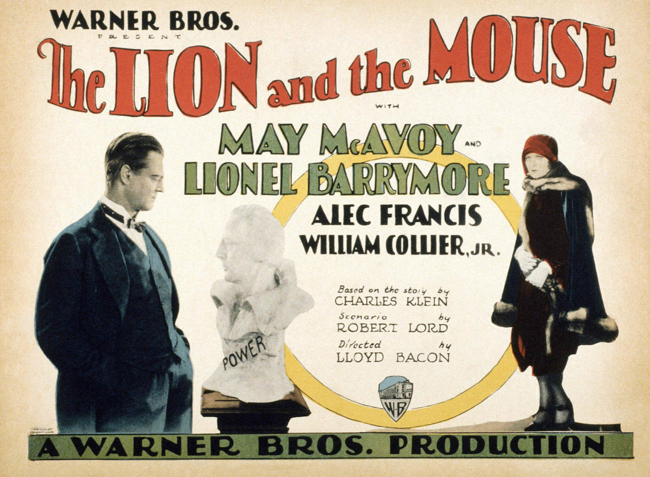 Lobby card for the American drama film The Lion and the Mouse (1928). There are no copyright marks.